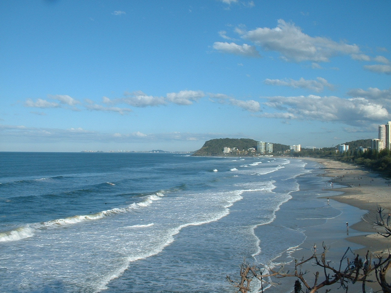 A view of Burleigh Head, Queensland. Burleigh Head National Park can be seen in the distance.